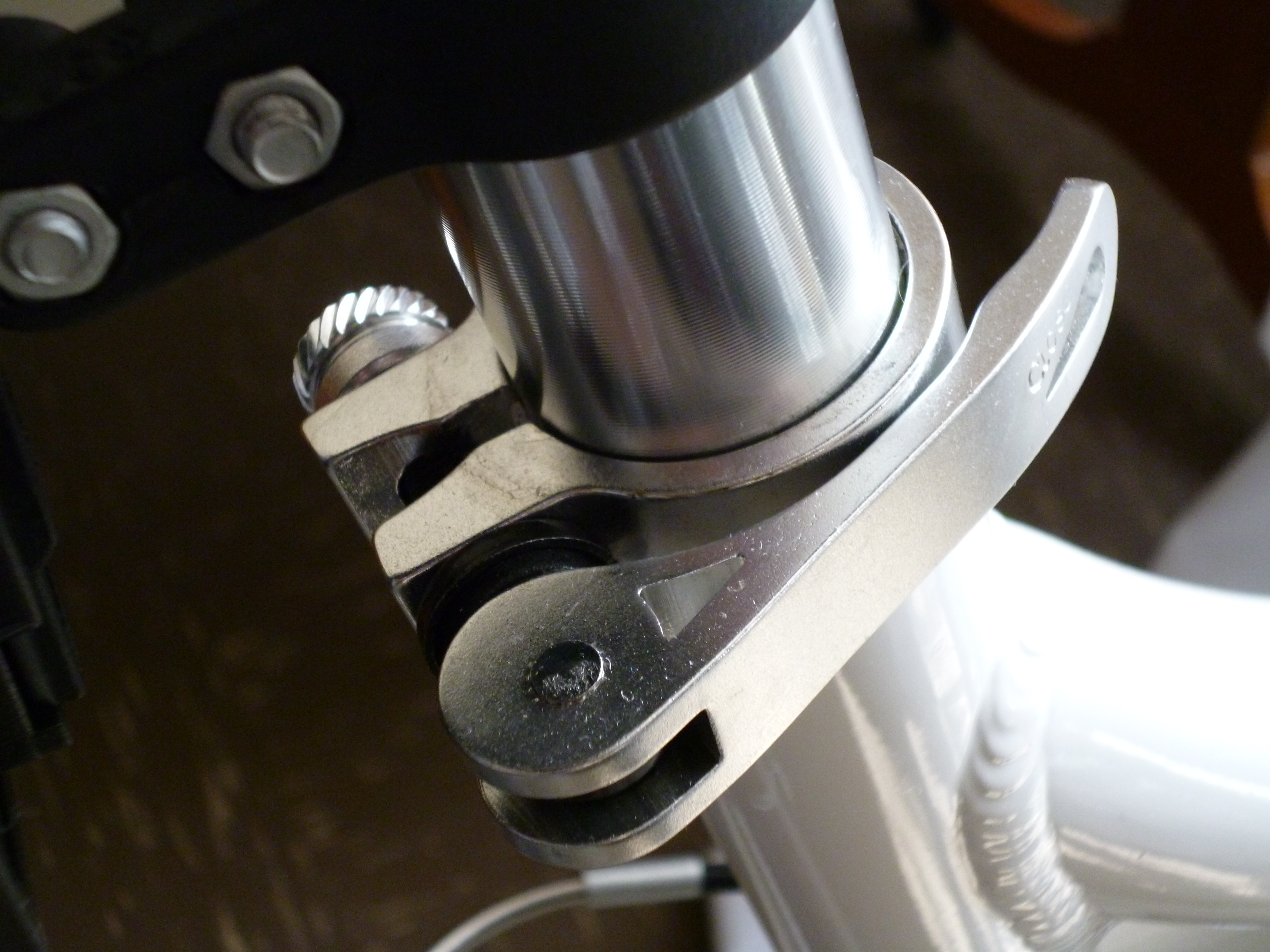 A typical quick release clamp for the saddle post of a bicycle. Closing the lever toward the post tightens it and pulling it outward releases it for adjusting the saddle's height.